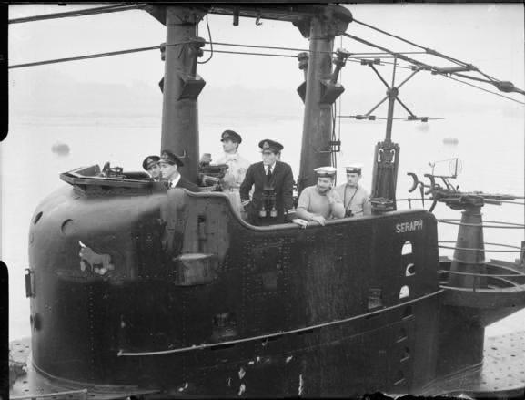 HMS SERAPH arriving home at Portsmouth after 13 busy months. On the bridge, left to right: Lieutenant F G Harris, RNVR, of Sale, Cheshire; Lieutenant N L A Jewell, of Pinner, Middlesex, the Commanding Officer Warrant Engineer M M Stevenson, DSC, RN, of Glasgow, Scotland, the Engineer Officer; and Lieutenant W D Scott, RN, the First Lieutenant. Note the 20mm anti aircraft gun aft of the conning tower.